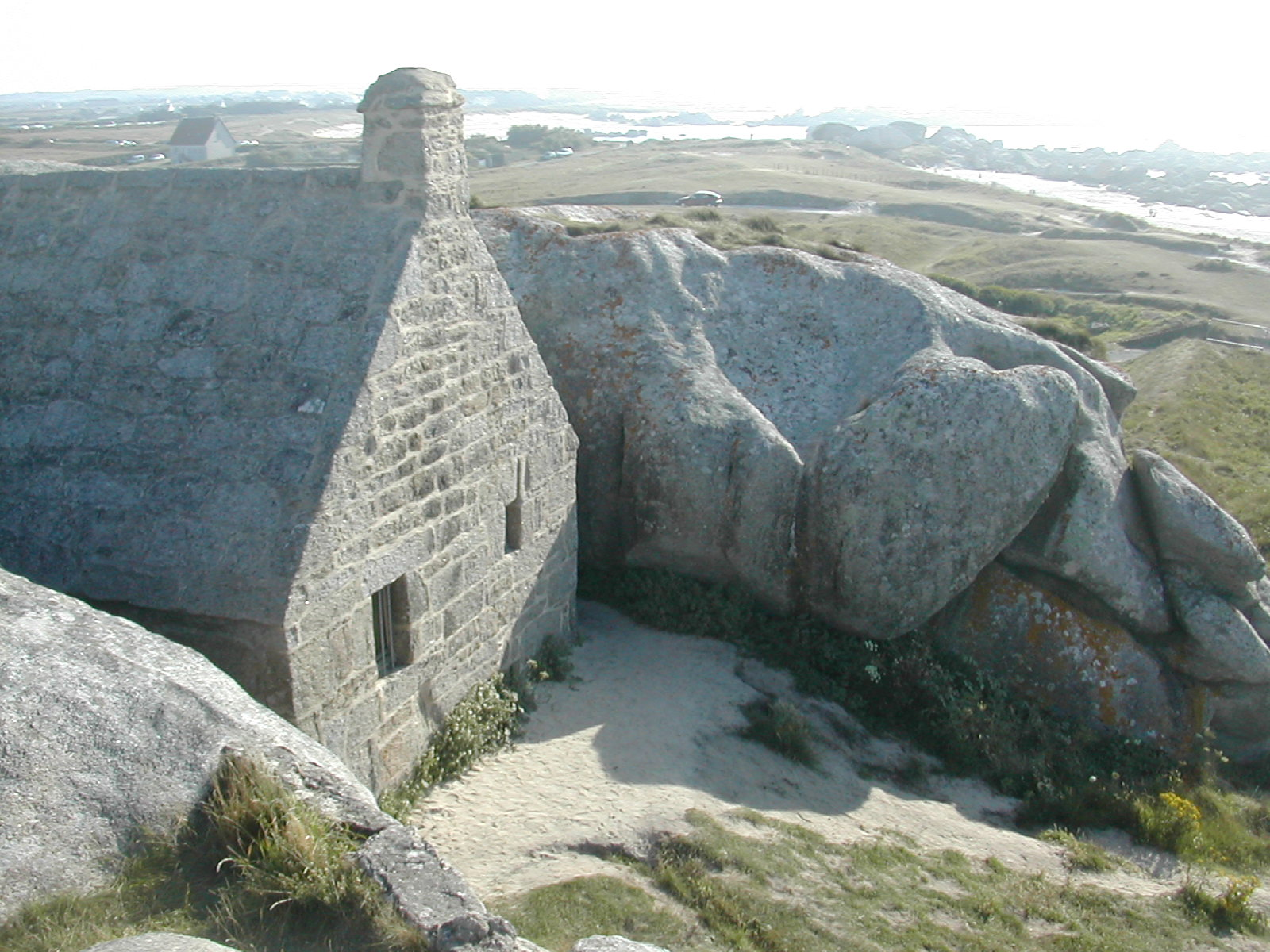 Meneham gard house. Digital photo, taken from the top of the rocks overhanging the house, at 18 o'clock.